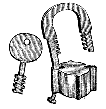 A drawing of what is in Swedish known as a "Polhemslås" - "Polhem's lock". Known as a "Scandinavian padlock” or "Swedish padlock" in USA. Picture comes from the Swedish encyclopedia Nordisk Familjebok, now in the Public Domain due to age. A picture of the lock is available here.